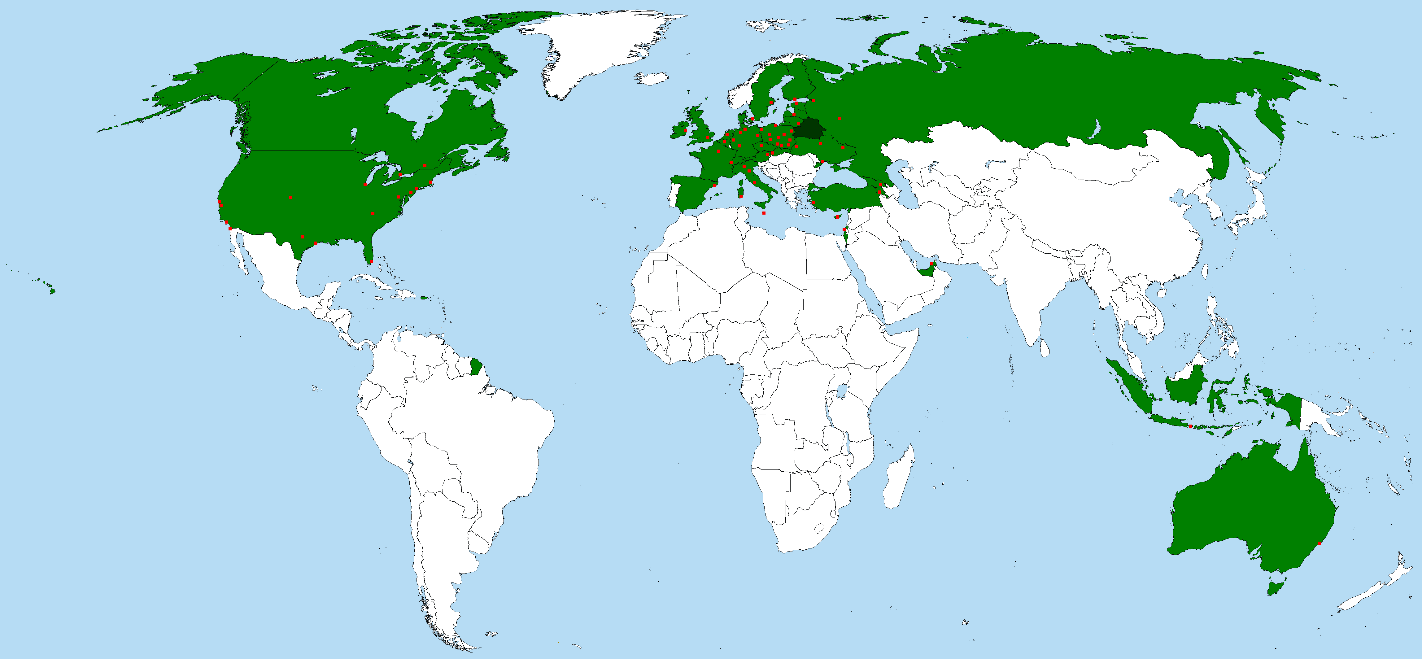 Solidarity Map